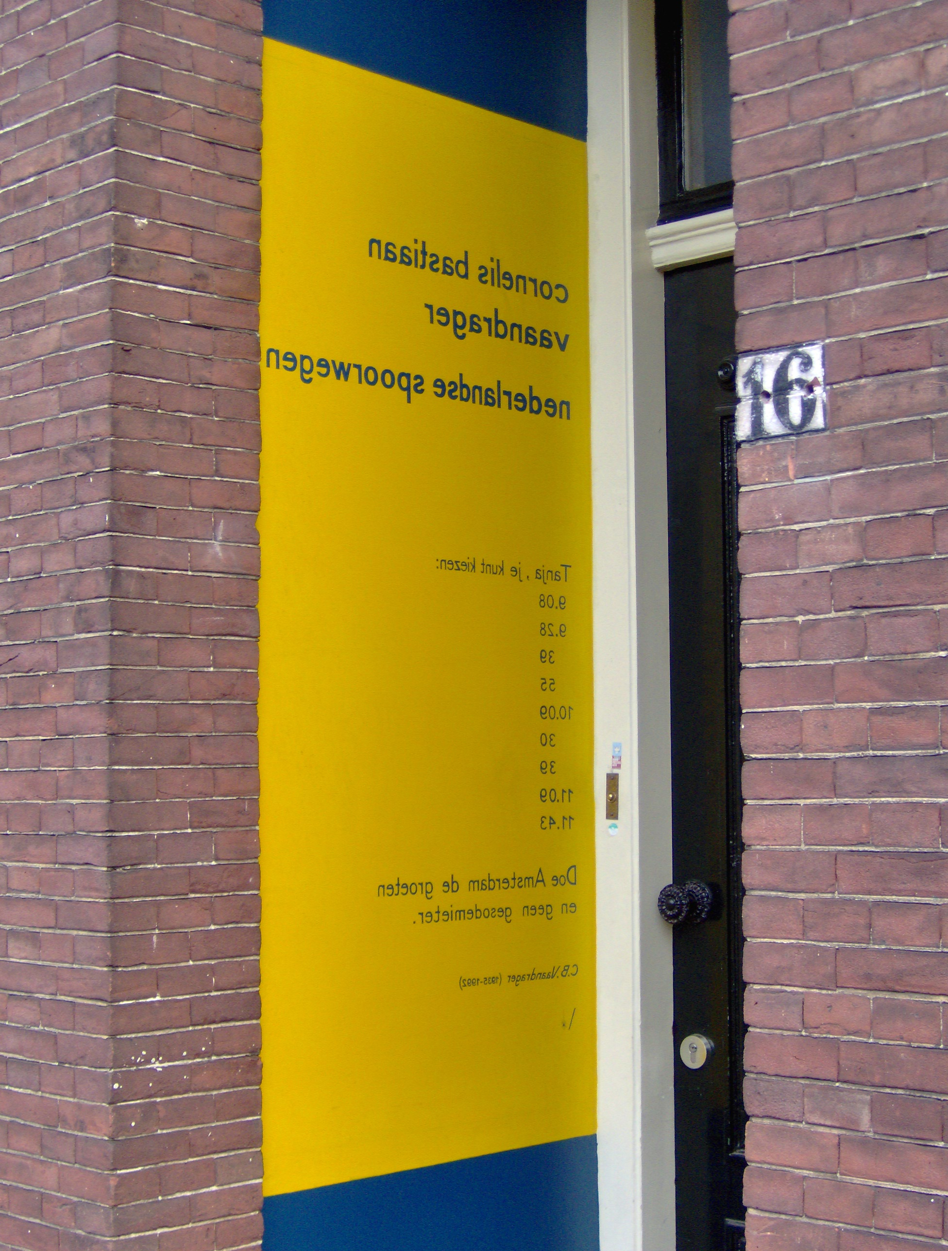 The poem Nederlandse Spoorwegen (Dutch railways) of the Dutch poet Cornelis Bastiaan (Cor) Vaandrager in the porch of the building at the Morsweg 16 in Leiden, The Netherlands. A mirror on the other side of the porch makes the poem readable.